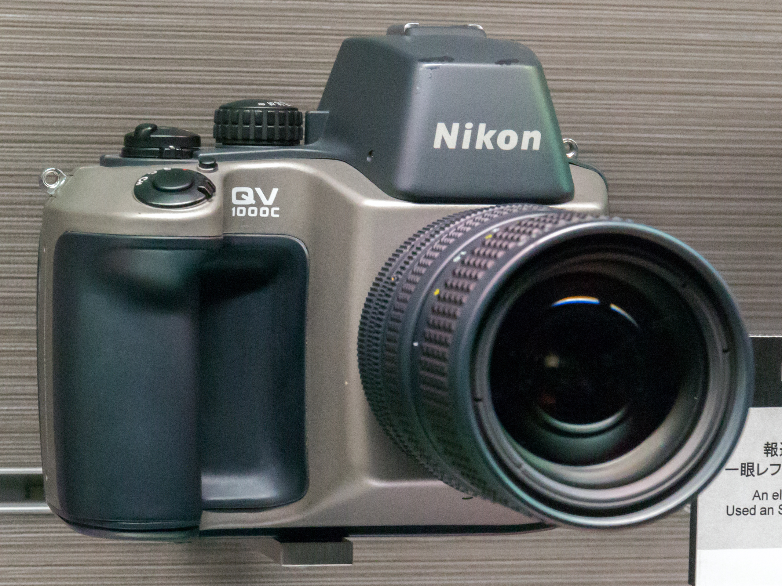 1988 Nikon QV-1000C